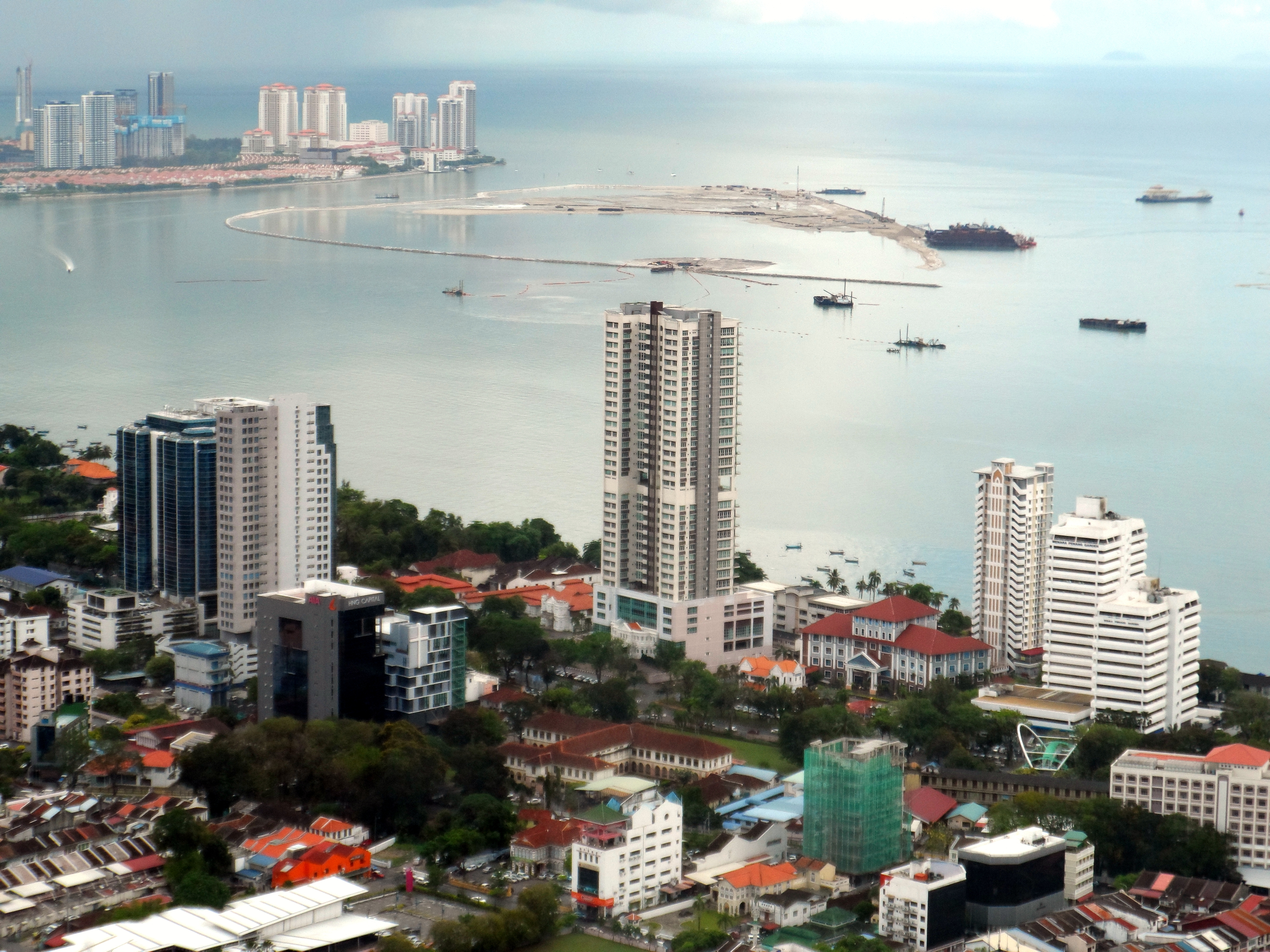 Gurney Wharf reclamation progress as of April 2017